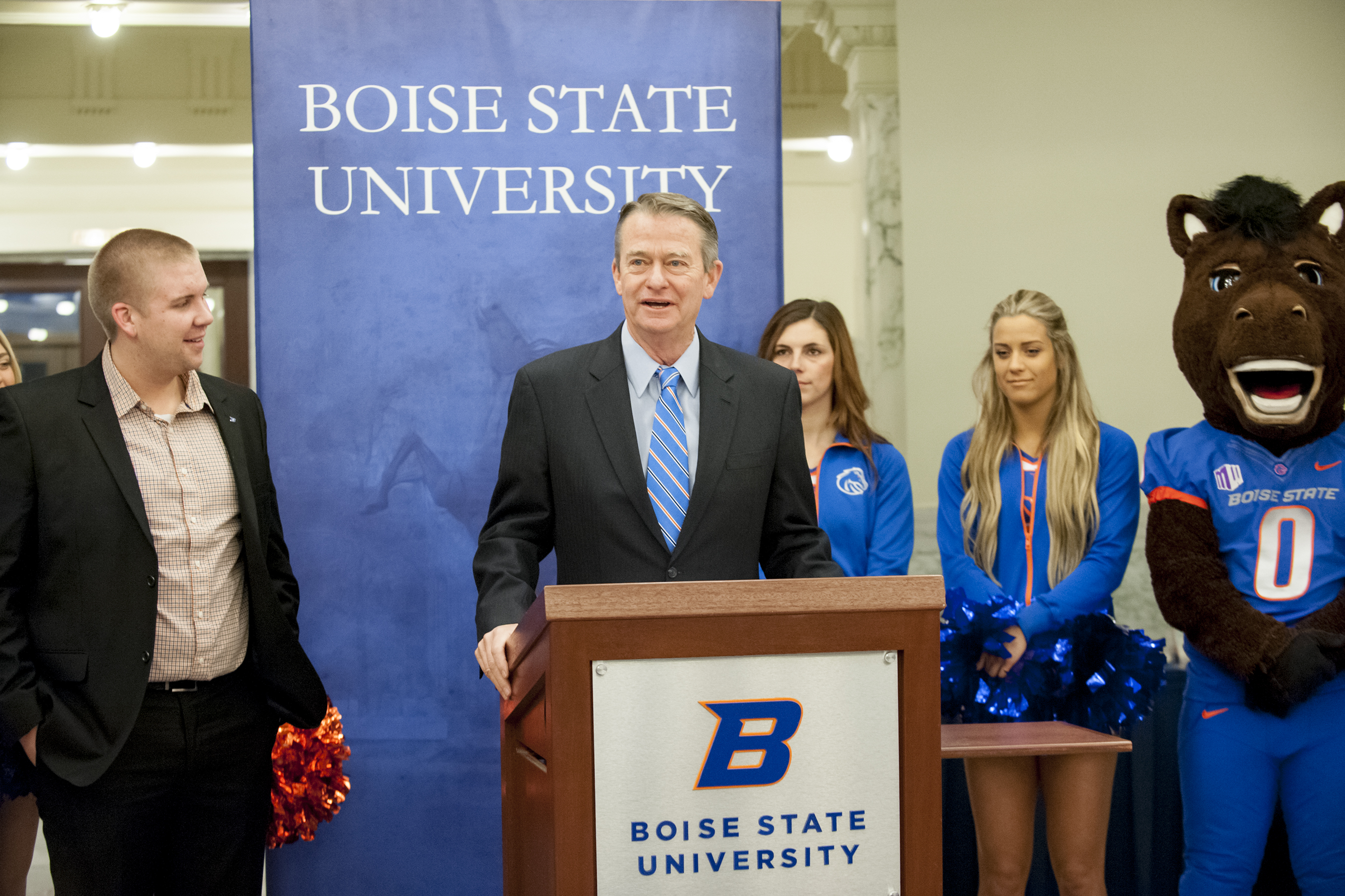 Boise State Day at the Capitol